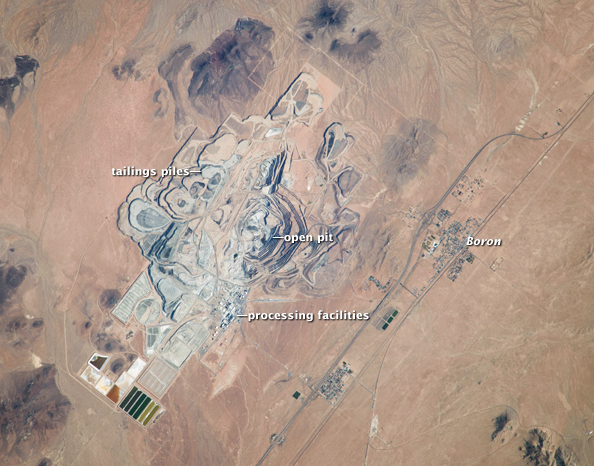 This photograph from an astronaut on the International Space Station features the former U.S. Borax mine, located to the northwest of Boron, California. Now owned by the Rio Tinto Group, it is the largest open-pit mine in California and is among the largest borate mines in the world.